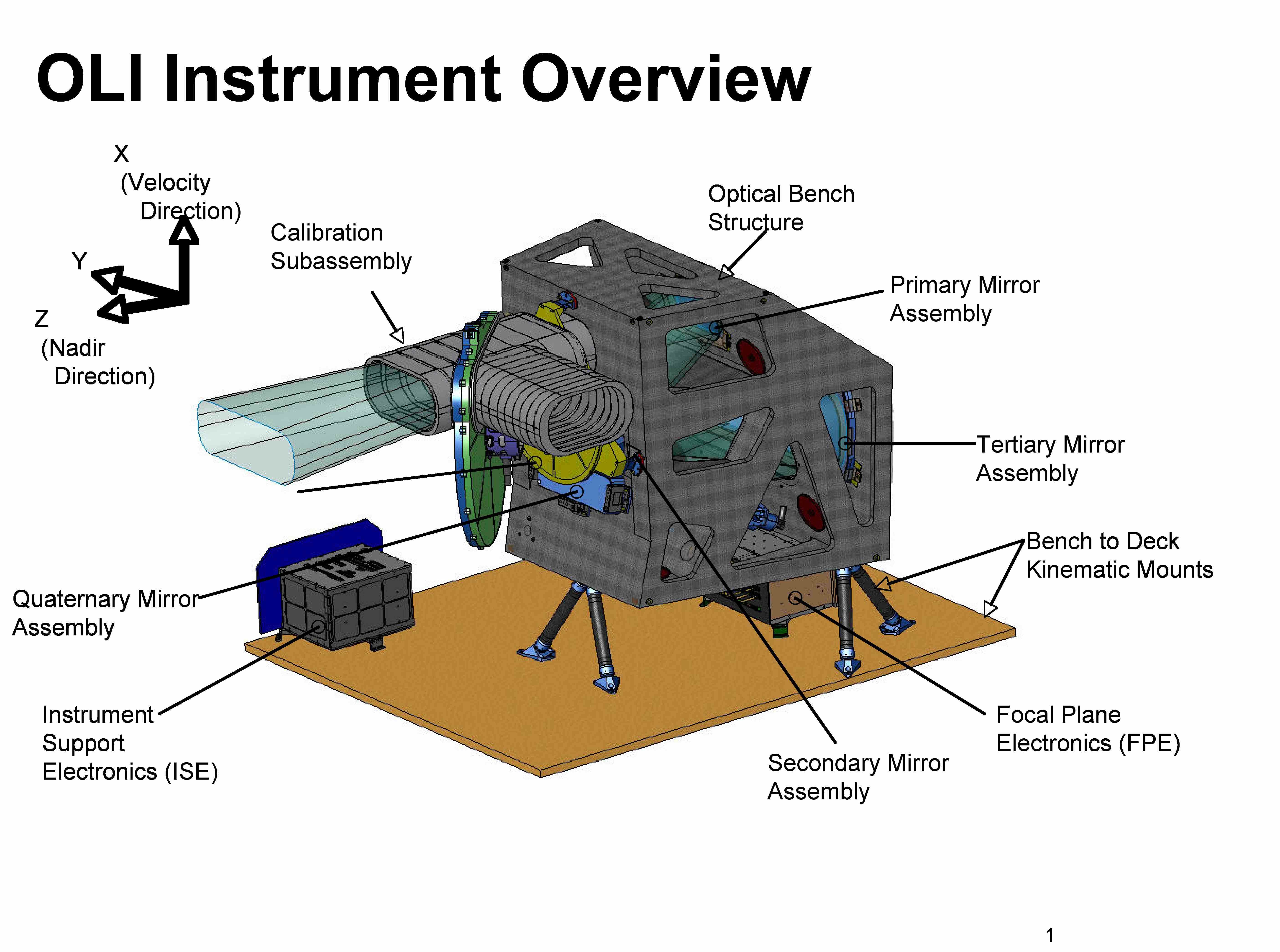 The Operational Land Imager (OLI) was built by the Ball Aerospace and Technologies Corporation. The Ball contract was awarded in July 2007. OLI improves on past Landsat sensors using a technical approach demonstrated by a sensor flown on NASA's experimental EO-1 satellite. OLI is a push-broom sensor with a four-mirror telescope and 12-bit quantization. OLI will collect data for visible, near infrared, and short wave infrared spectral bands as well as a panchromatic band. It has a five-year design life.